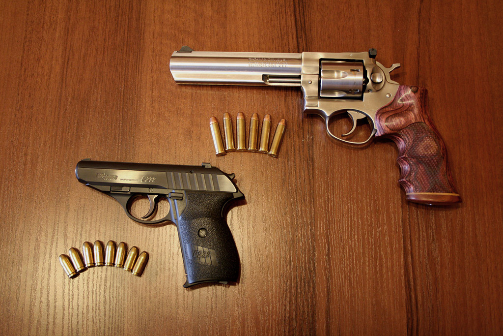 Ruger GP100 .357 magnum revolver and Sig Sauer P232 9mm short compare